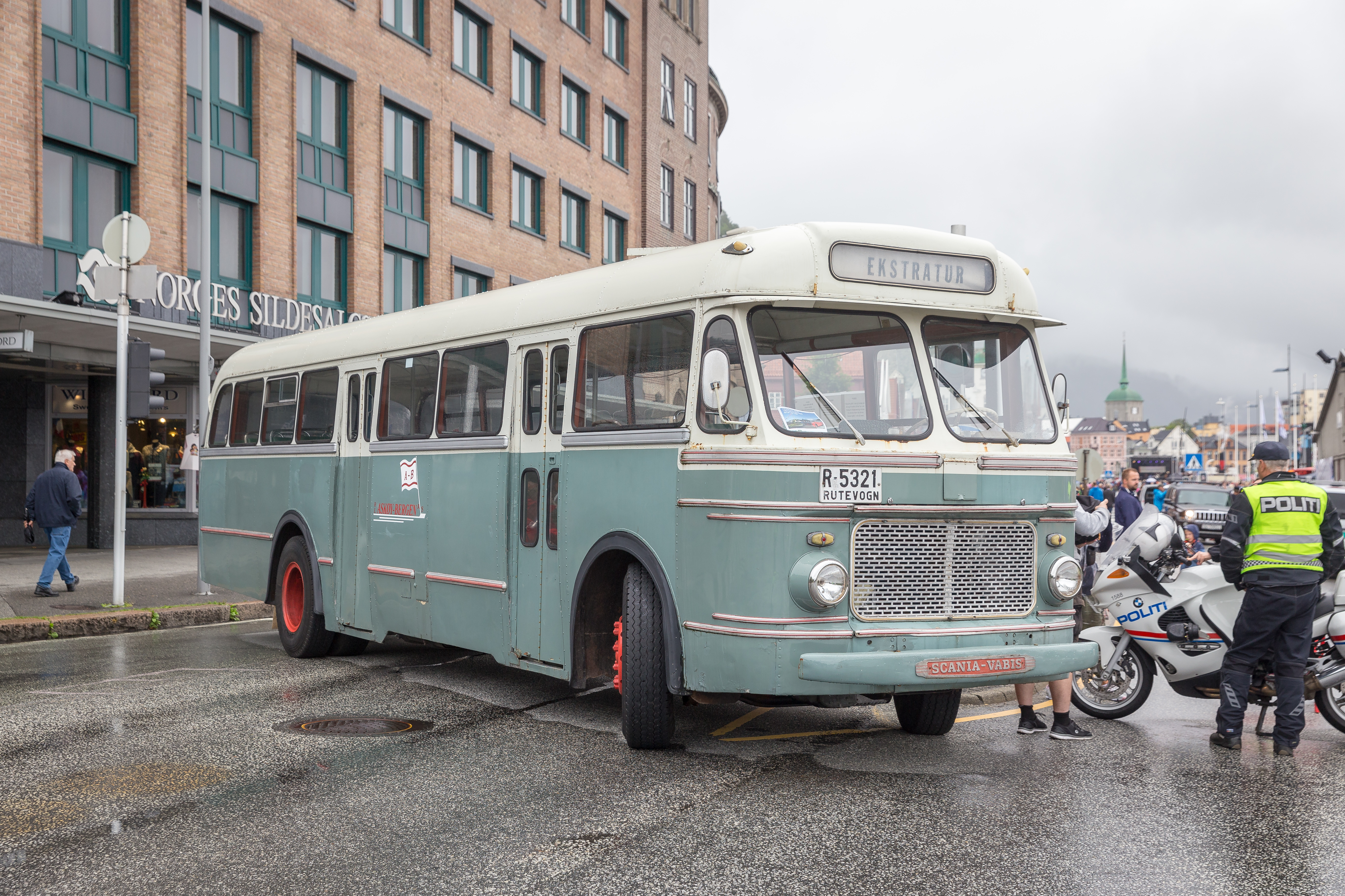 Vintage vehicles at Fjordsteam 2018. The maritime heritage festival took place between August 2 and August 5 2018 in Bergen, Norway.